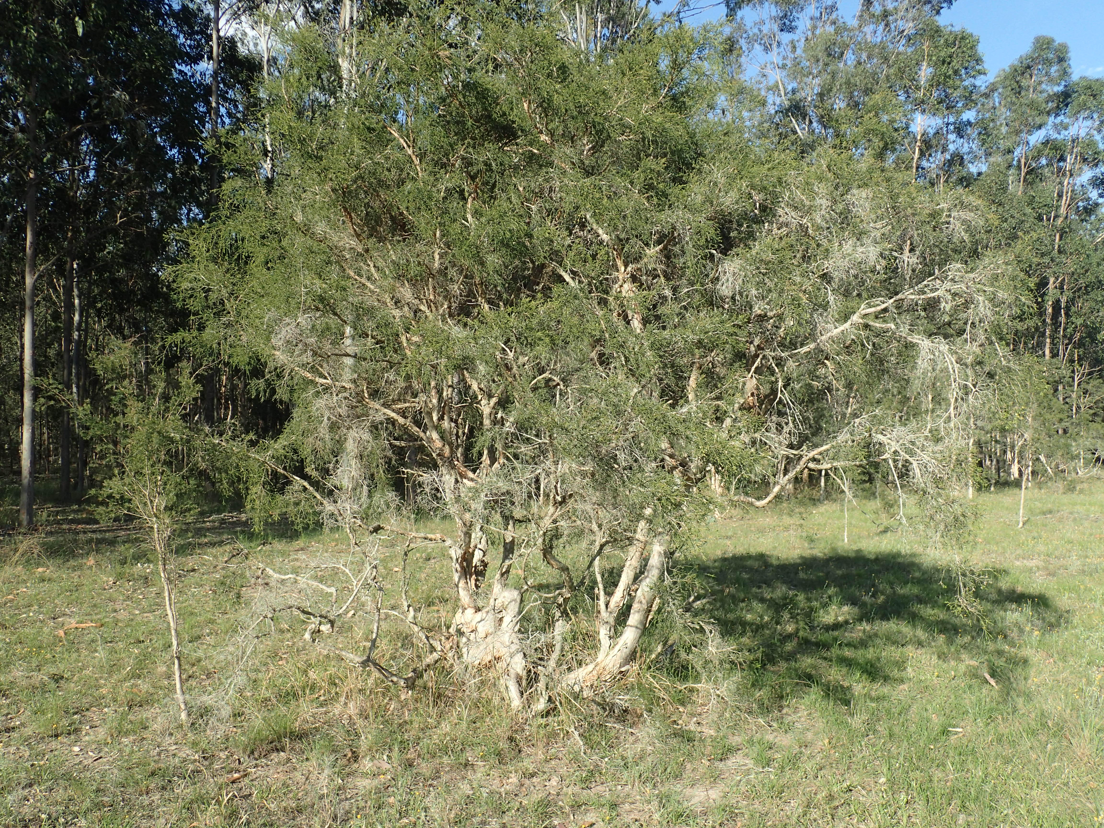 Melaleuca alternifolia growing near Casino